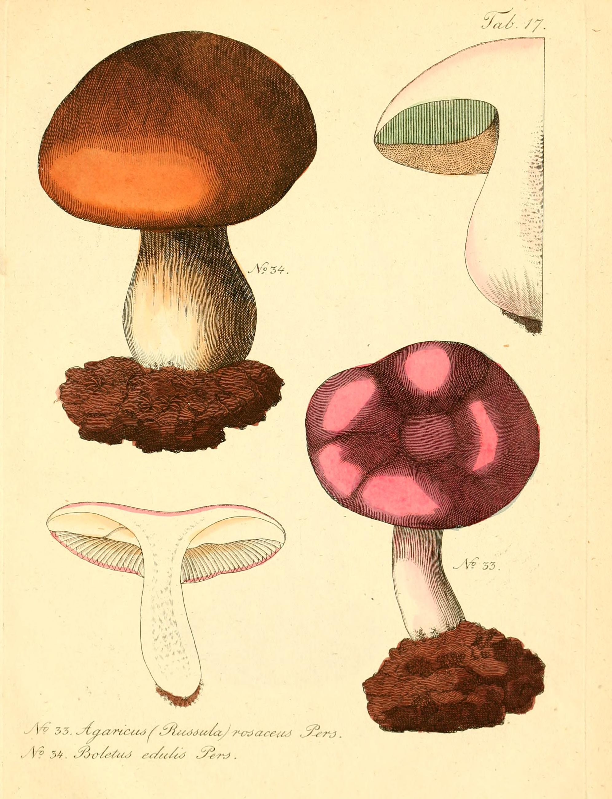 Illustrations of Boletus edulis and Agaricus rosaceus (=Russula rosea)